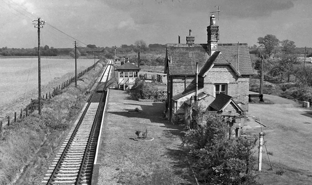 Buckden Station. View eastward, towards Huntingdon and St Ives; ex-Midland, Kettering - Huntingdon East (- St Ives - Cambridge) line. The station and line were closed completely 15/6/59. By April 1961 it had evidently been converted to a dwelling house, but the line and signalbox were still intact. The signalbox was later removed to the Spa Valley Railway at Tunbridge Wells, but I can find no reference to the line being used at all after June 1959. [Can anyone help?]